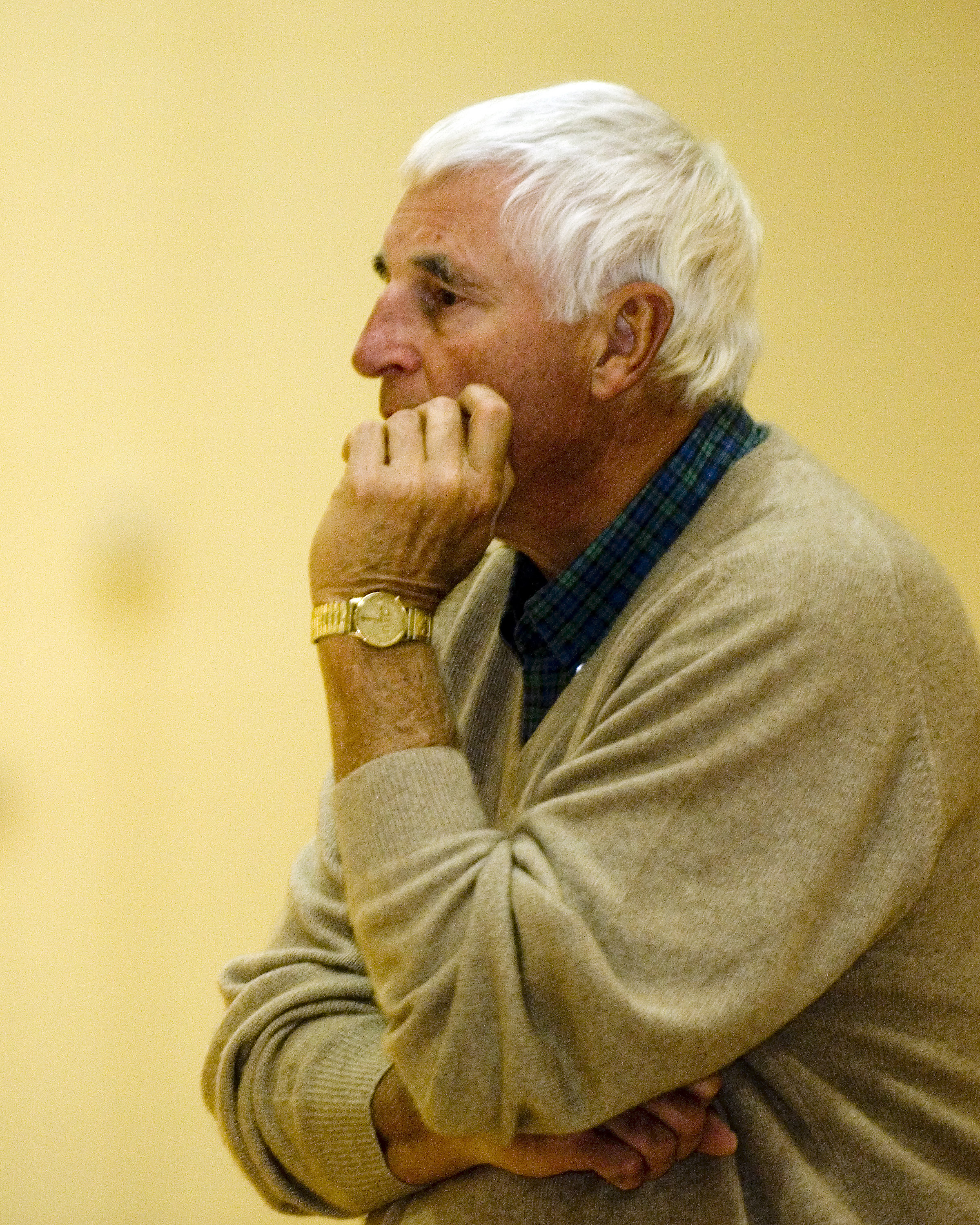 ELMENDORF AIR FORCE, Alaska -- Coach Bobby Knight, Texas Tech University basketball, watches his players practice at the fitness center here Nov. 21. Coach Knight spoke with Airmen and Soldiers before his team began practicing for the Carrs/Safeway Great Alaska Shootout. The basketball tournament took place Nov. 20-24 at the Sullivan Arena in Anchorage. Texas Tech lost to Butler University 81-71 in the championship game Nov. 24. (U.S. Air Force photo by Airman 1st Class Jonathan Steffen)